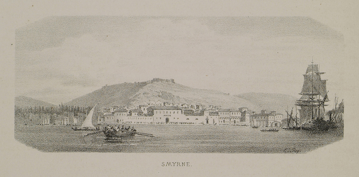 Étienne Rey. Voyage Pittoresque en Grèce et dans le Levant fait en 1843-1844, vols Ι-ΙΙ, Lyon, Louis Perrin, MDCCCLXVII (1867)